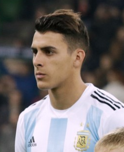 Argentine footballer Cristian Pavón